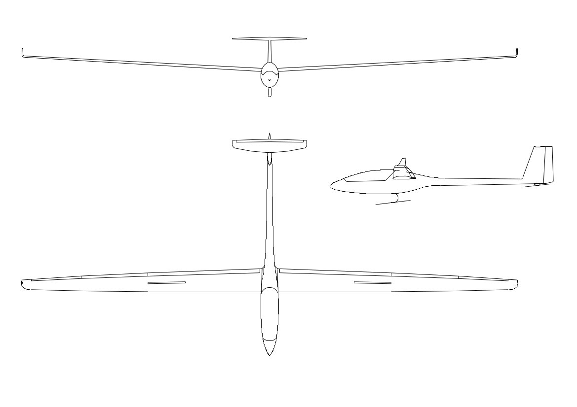 Three-view drawing of the Akaflieg Stuttgart fs33 sailplane.